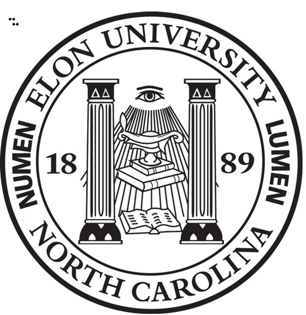 Elon University Seal